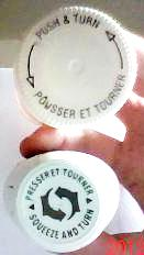 Example of two different types of child-proof lids